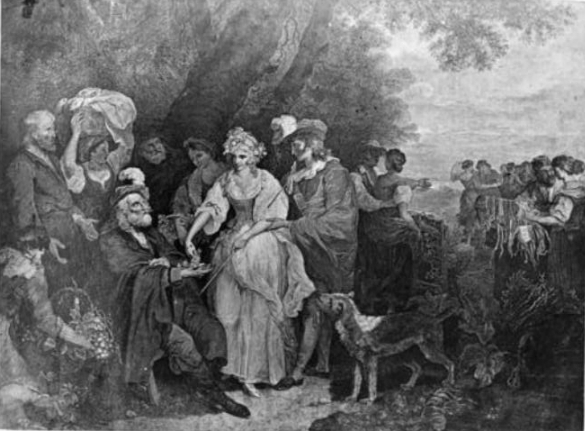 Francis Wheatley, "Winters_Tale_act_IV_scene_3" for Boydell Shakespeare Gallery